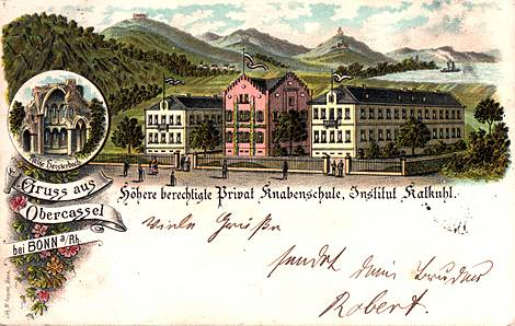 Germany, Bonn-Oberkassel: Postcard with a picture of the Institute Kalkuhl, now a private school.